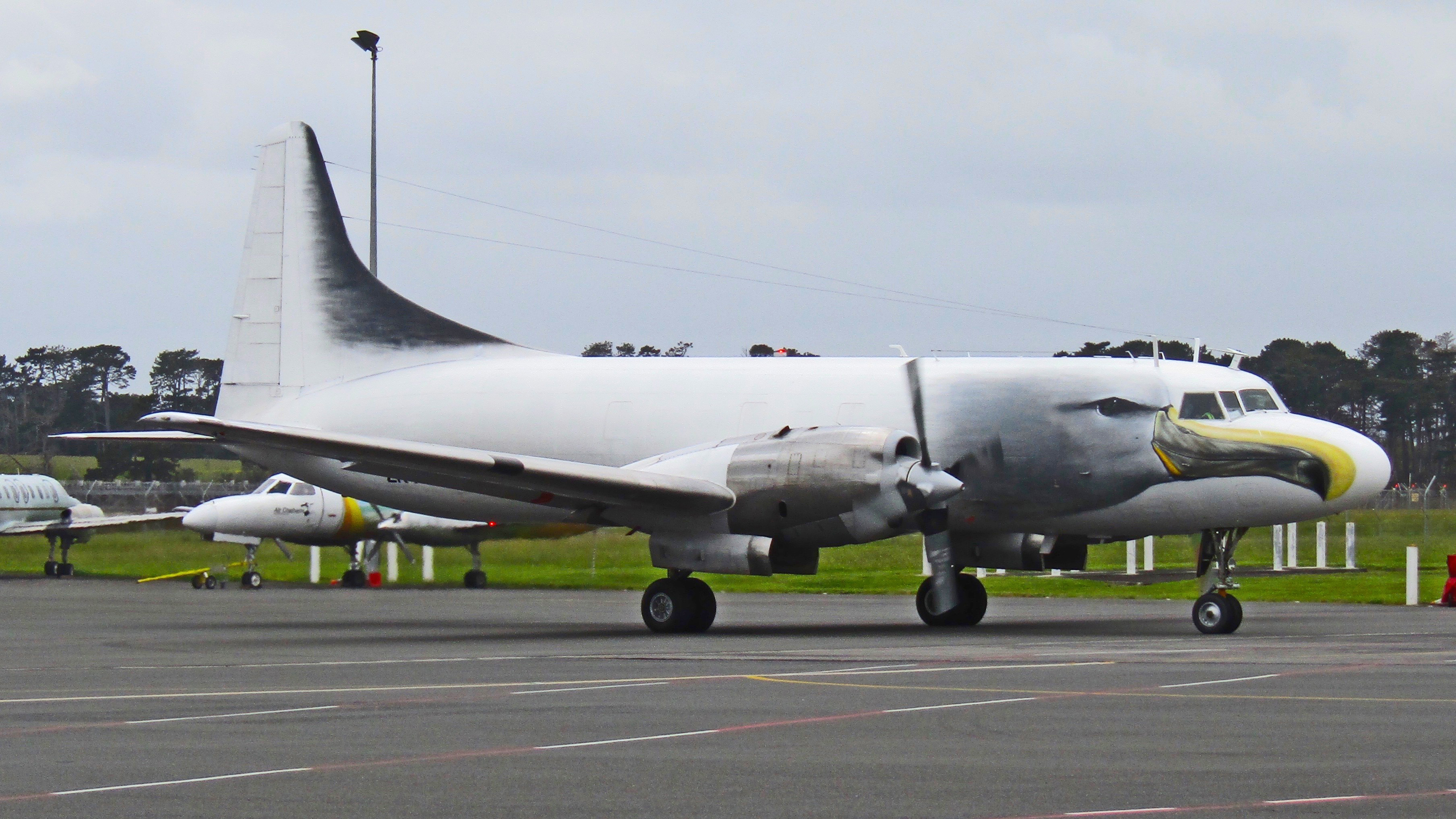 Air Chathams' sole Convair 580 freighter, ZK-KFL, painted as the Chatham Islands Albatross, or Toroa. The airframe is ex-Air Freight NZ and usually used for freight runs to the Chatham Islands.